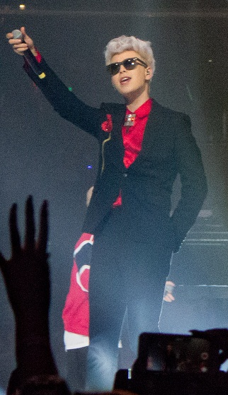 Block B at KCON 2015, Los Angeles; P.O center stage.